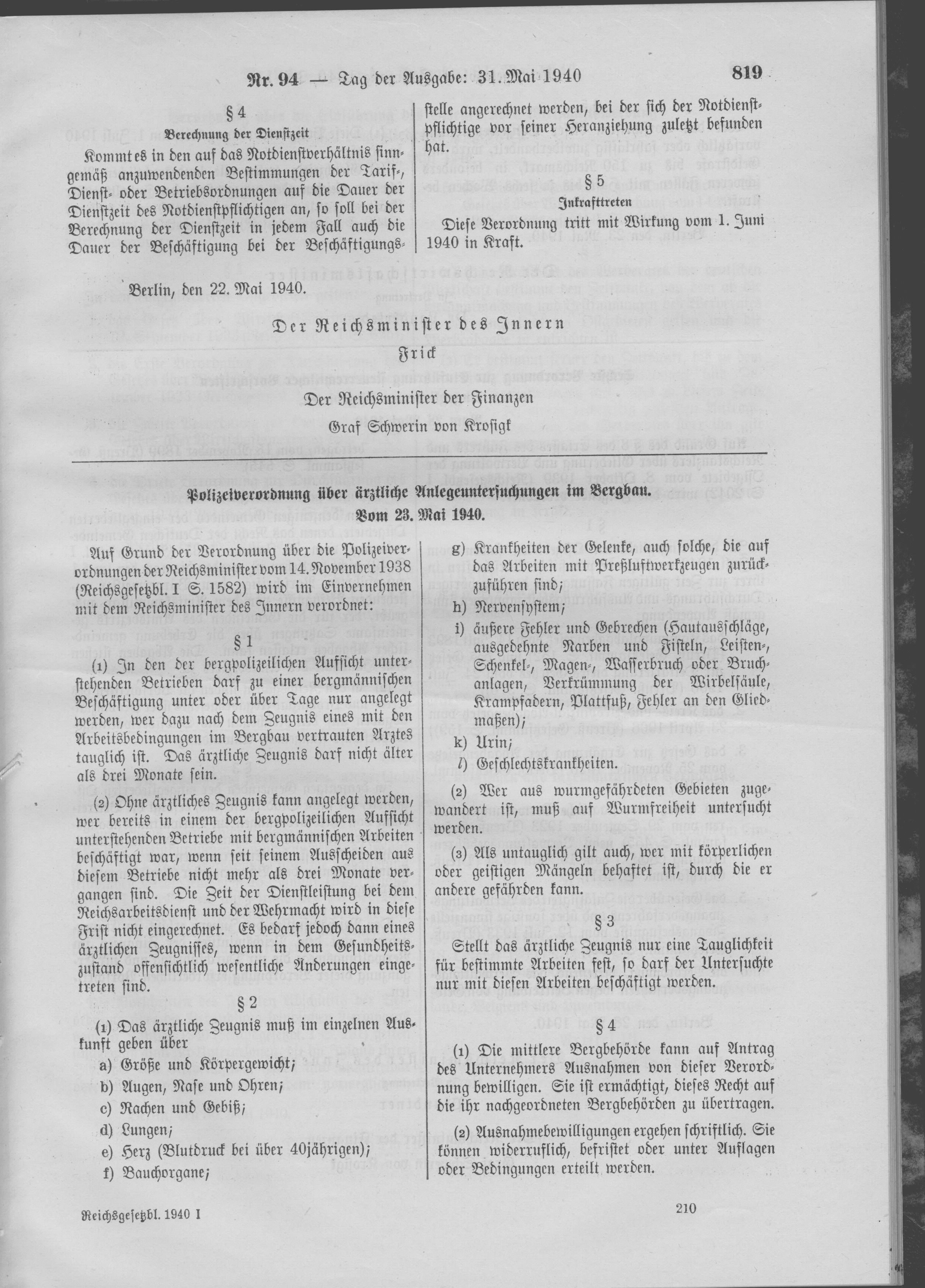 Scan from the Imperial Law Gazette of Germany, 1940, part 1